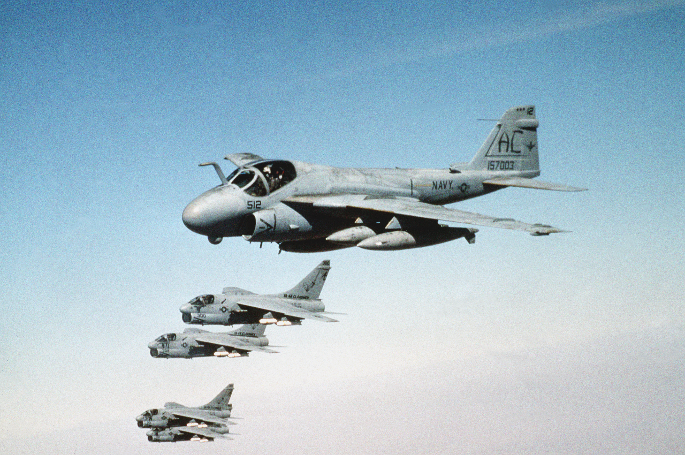 A U.S. Navy Grumman A-6E Intruder aircraft (BuNo 157003) of attack squadron VA-75 Sunday Punchers and Vought A-7E Corsair II aircraft of VA-46 Clansmen fly in formation as they prepare for refueling during "Operation Desert Storm" in early 1991. The Corsairs are armed with cluster bombs and AIM-9L Sidewinder air-to-air missiles. The Intruder carrier four drop tanks and a "buddy-buddy" refueling pack. VA-76 and VA-46 were assigned to Carrier Air Wing Three (CVW-3) aboard the aircraft carrier USS John F. Kennedy (CV-67) from 15 August 1990 to 28 March 1991. This was the last deployment for the A-7 Corsair. The A-6E 157003 was retired to AMARC as 5A0083 on 19 November 1993.